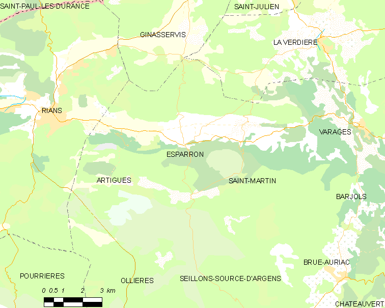 Map of French municipality Esparron